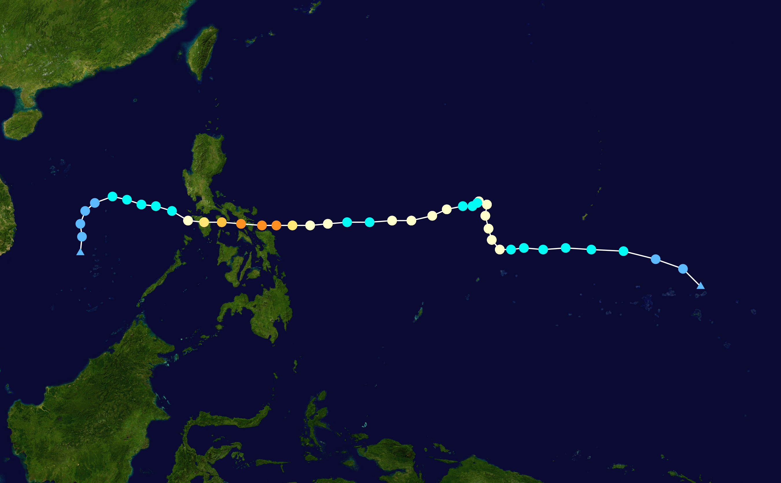 Track map of Typhoon Kammuri of the 2019 Pacific typhoon season. The points show the location of the storm at 6-hour intervals. The colour represents the storm's maximum sustained wind speeds as classified in the Saffir–Simpson scale (see below), and the shape of the data points represent the nature of the storm, according to the legend below. Saffir–Simpson scale Tropical depression≤38 mph≤62 km/h Category 3111–129 mph178–208 km/h Tropical storm39–73 mph63–118 km/h Category 4130–156 mph209–251 km/h Category 174–95 mph119–153 km/h Category 5≥157 mph≥252 km/h Category 296–110 mph154–177 km/h Unknown Storm type Tropical cyclone Subtropical cyclone Extratropical cyclone / Remnant low / Tropical disturbance / Monsoon depression